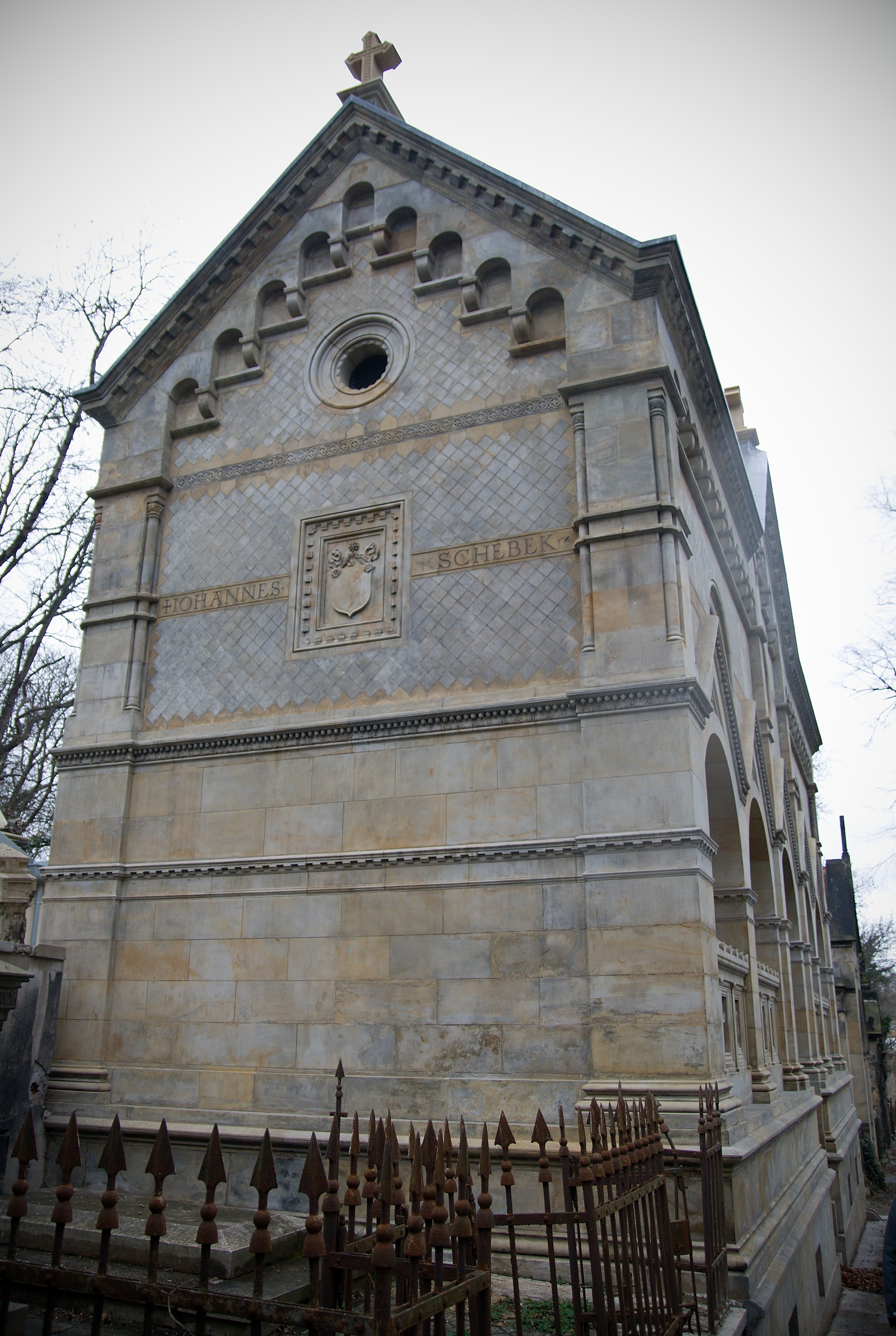 Olšanské hřbitovy Cemetery - Grave of Lanna and Schebek Family